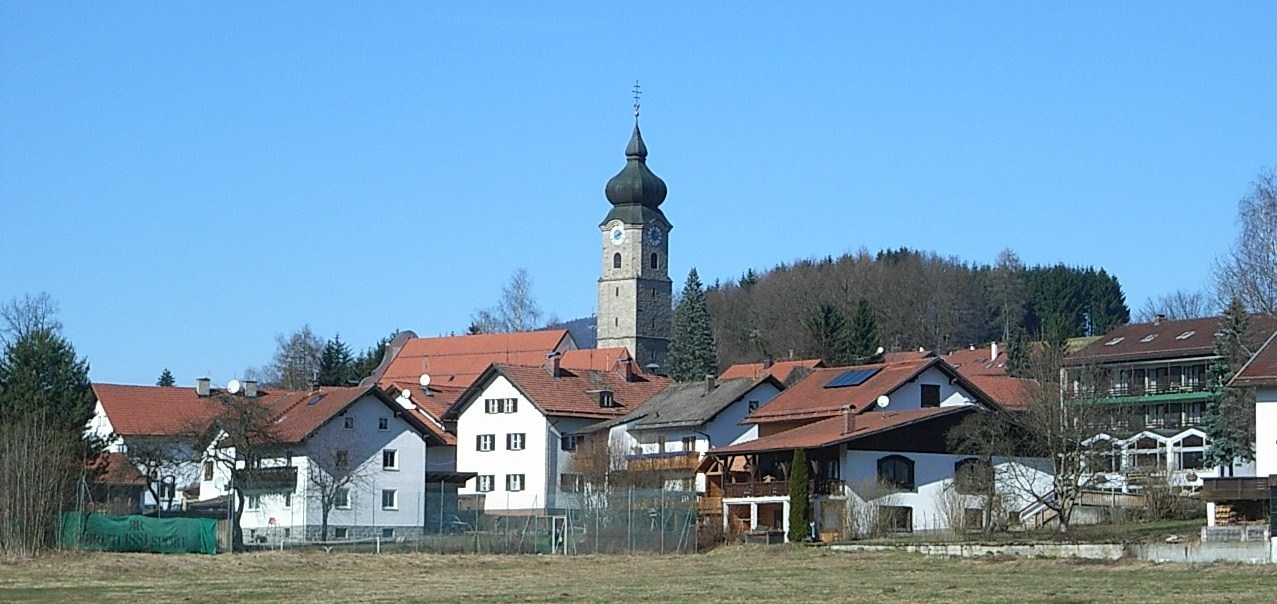 Drachselsried, general view from south-east with St Giles Parish Church.